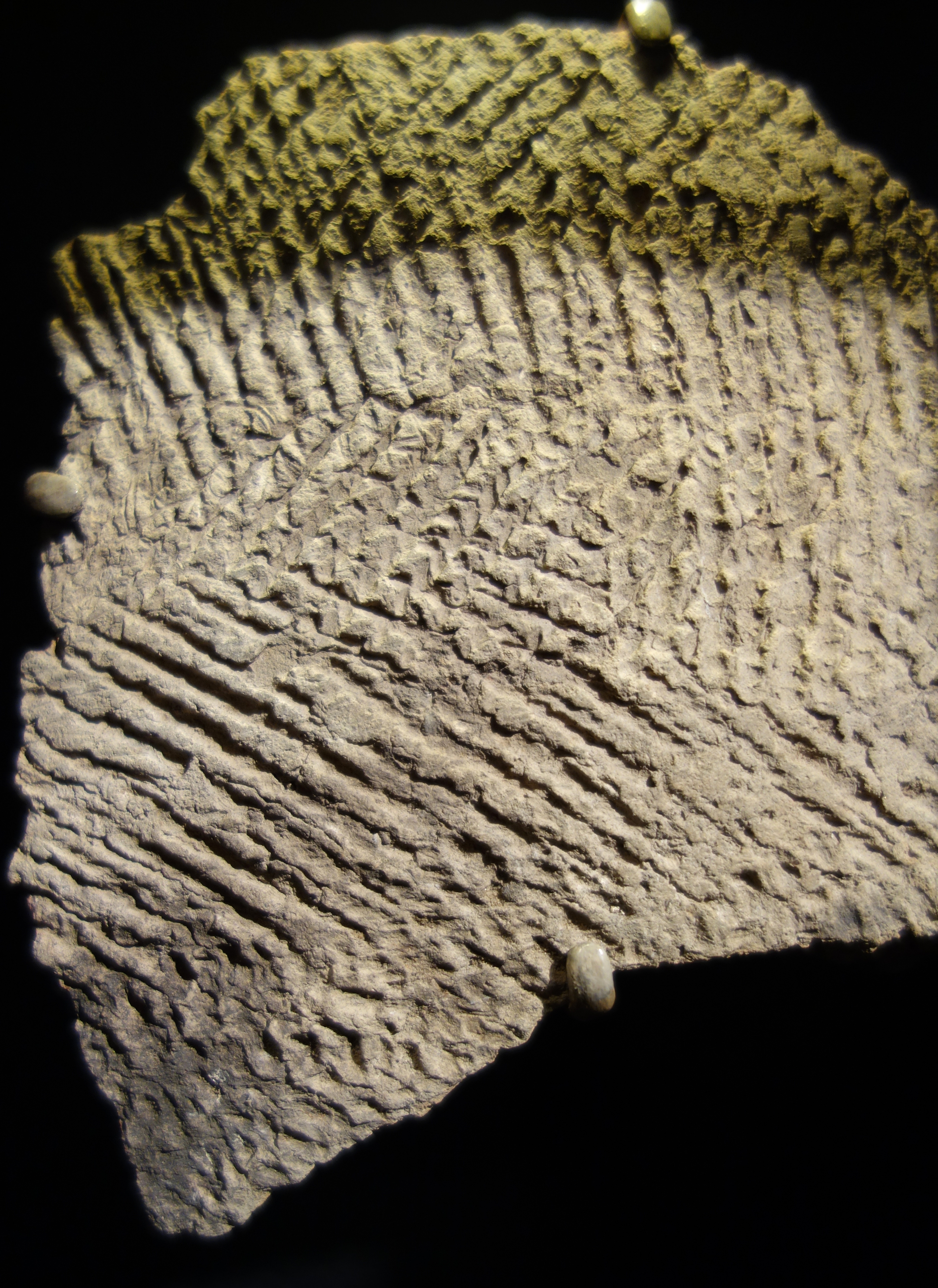 Exhibit in the Fernbank Museum of Natural History, Atlanta, Georgia, USA.